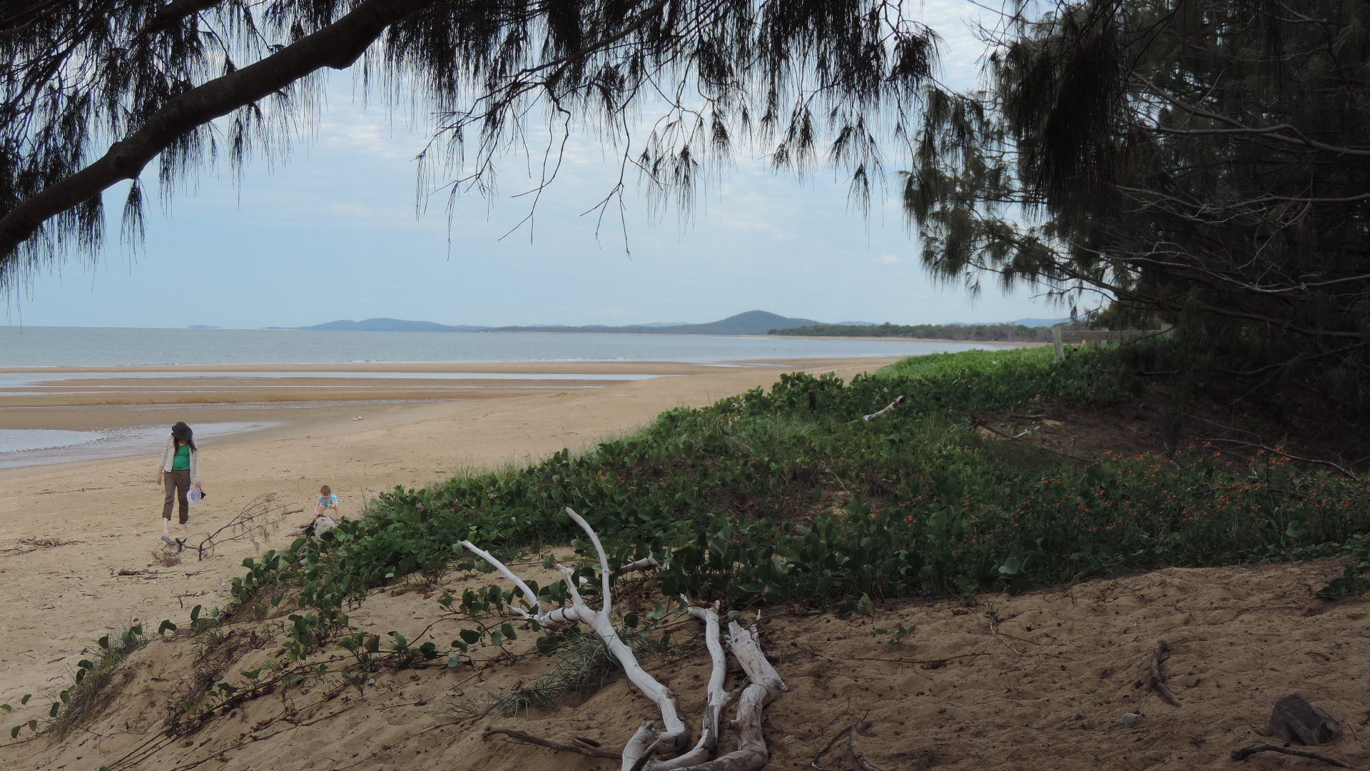 Beach at Tannum Sands, 2014